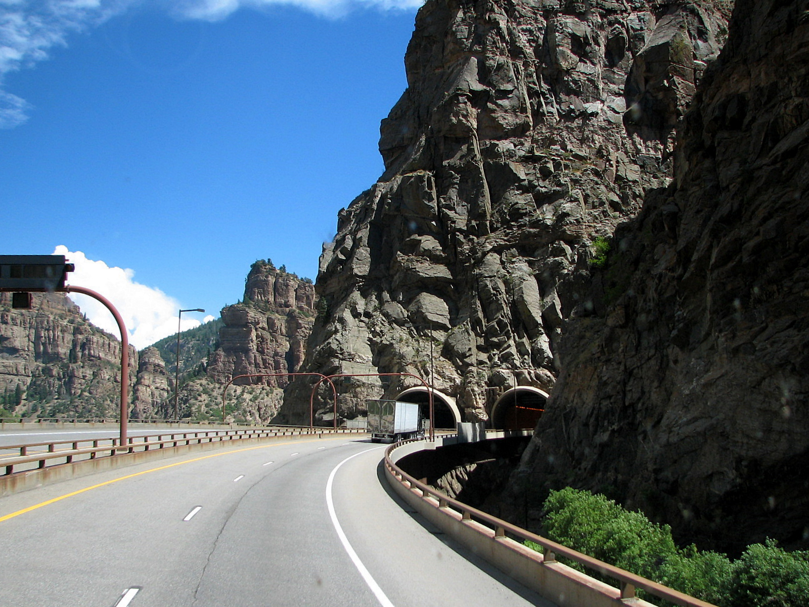 The entrance to the Hanging Lake Tunnel along Interstate 70 in Colorado. This portion of the freeway is commonly considered the most scenic, most expensive, and last section of interstate highway built in the United States.